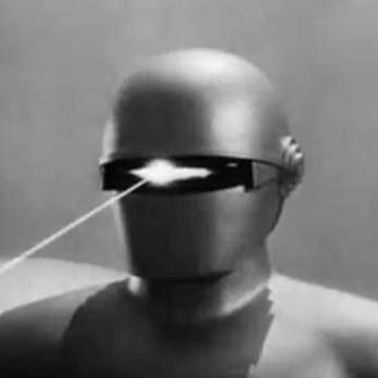 The Day the Earth Stood Still is a 1951 science fiction film about an alien and a robot on a diplomatic mission to Earth. This image is a screenshot from a public domain trailer for the film. Trailers for movies released before 1964 are in the Public Domain because they were never separately copyrighted.